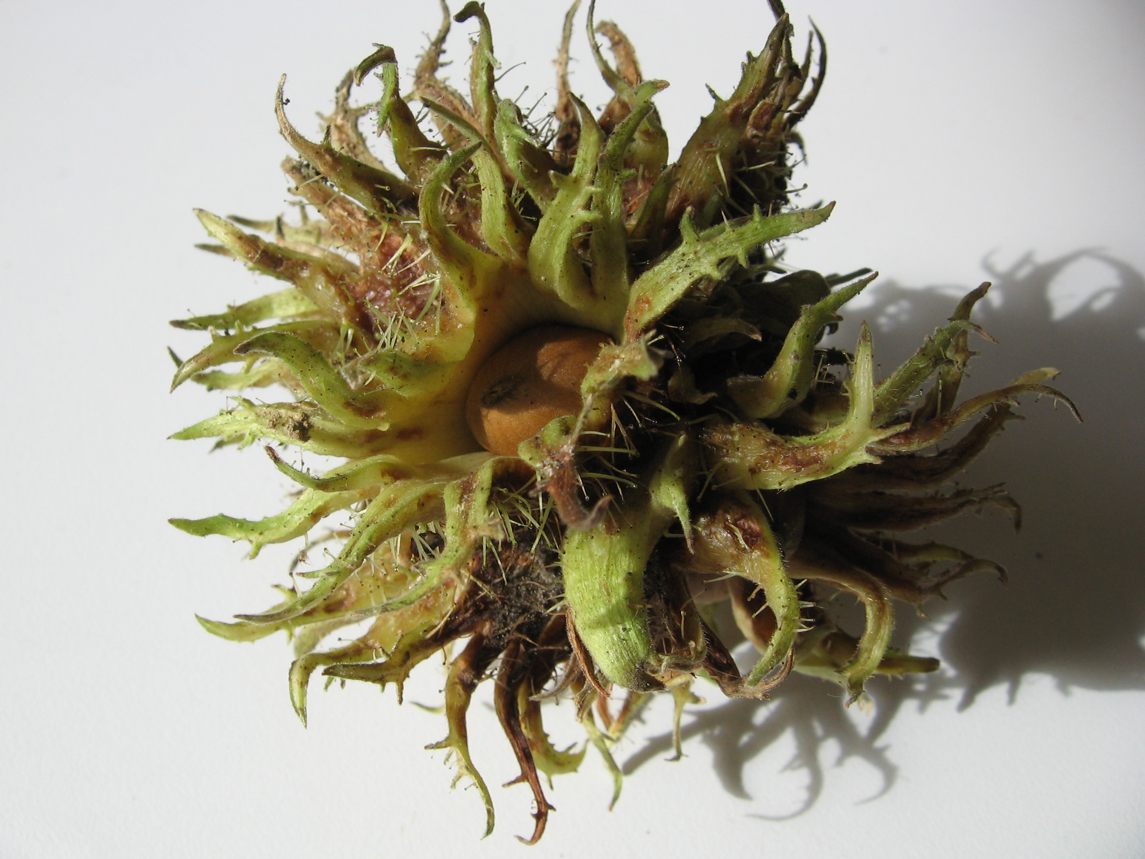 Bristly involucre (husk) 4 cm diameter, which encloses 7 nuts, of Corylus colurna (Turkish Hazel), lying in a street of downtown Nantes.